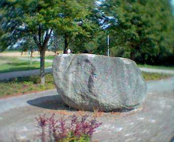 A 30 ton glacial erratic boulder in front of the Drijscheer in Alteveer, Stadskanaal. It was dug up between Tange and Alteveer.